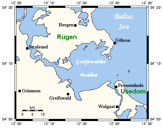 Map showing the Greifswalder Bodden on Germany's Baltic coast. This map's source is here, with the uploader's modifications, and the GMT homepage says that the tools are released under the GNU General Public License.